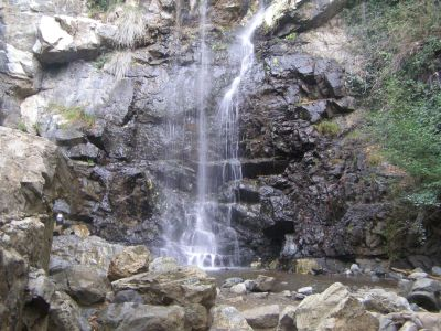 The Kaledonia Falls in the Troödos Mountains, Cyprus